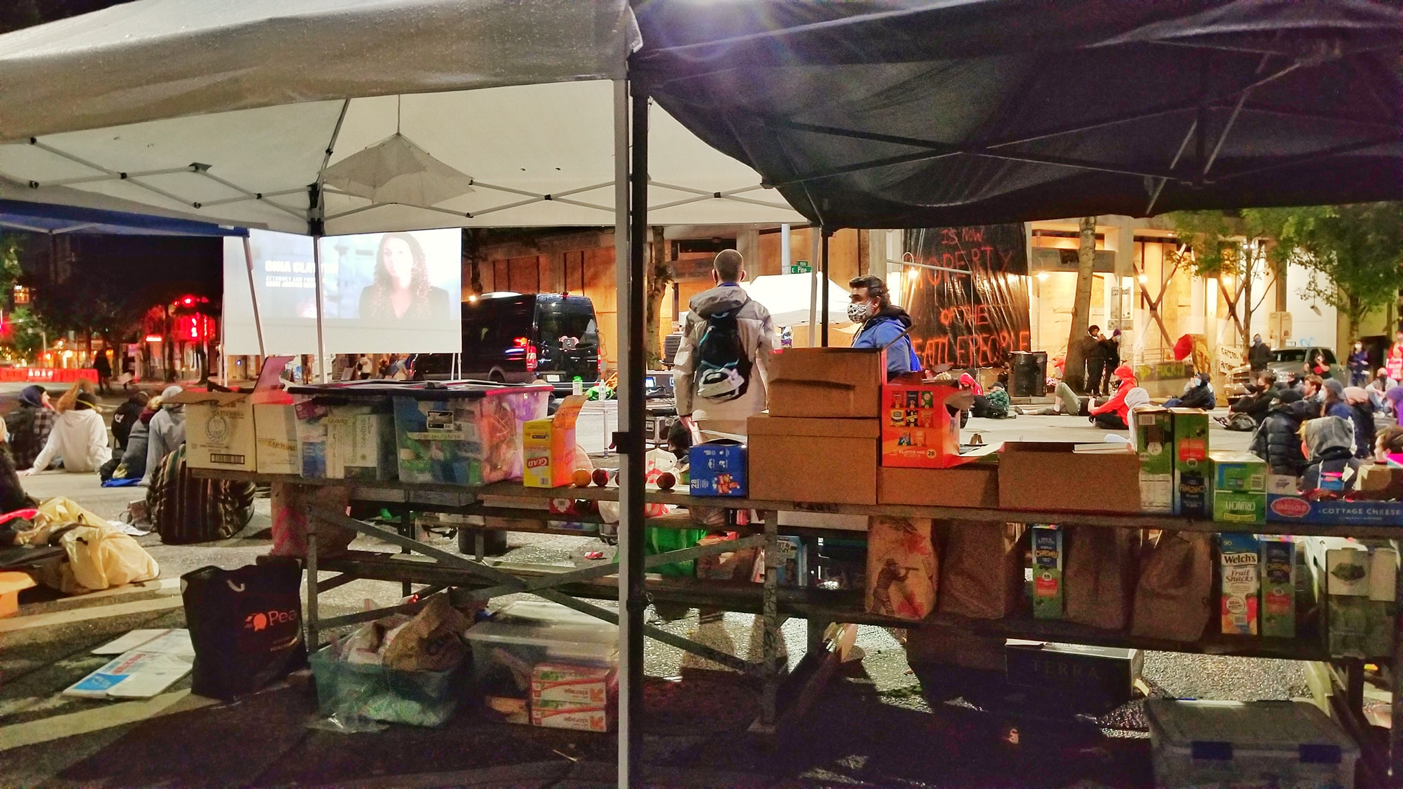 An early picture of the snacks and supplies booth in the Capitol Hill Autonomous-collective Zone the day after police left the area. Also pictured in the background is an entertainment screen, residents, and visitors to the zone. Photo was taken at 2020-06-09 23:47 PDT.